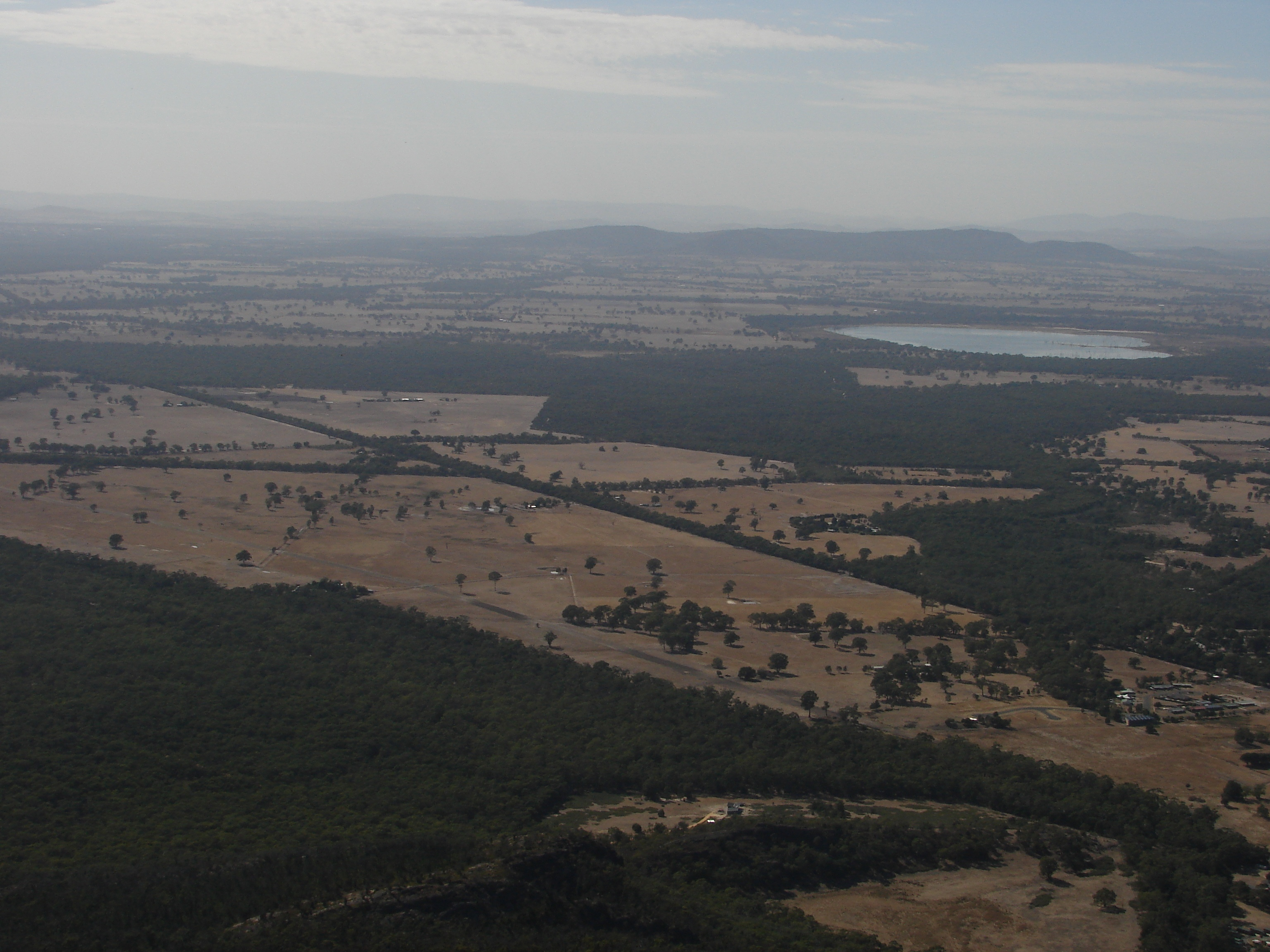 Grampians, Victoria, Australia: View from Boroka Lookout over the plains east of the Grampians and over Lake Fyans